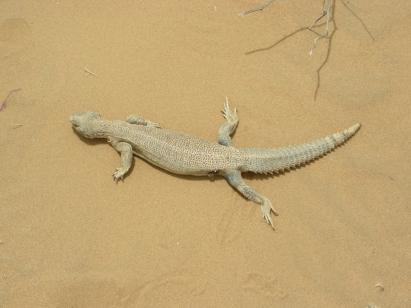 Spiny-tailed Lizard, Uromastyx hardwickii, Family Agamidae(Sauria). Dead specimen found on the sand dunes. Cause of death could not be ascertained. Photographed by Aashay Baindur on 11 Jun 2006 in Thar desert, Jaisalmer district, Rajasthan, India.